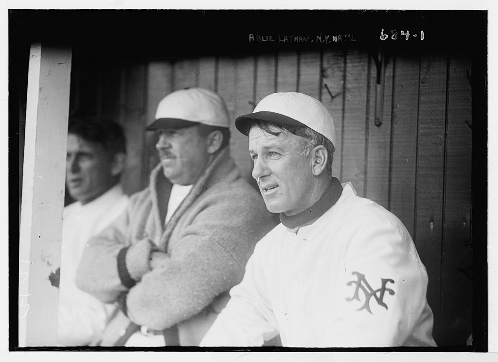 The dugout of the New York Giants baseball team in 1909. The man in the center is Giants pitching coach (and former player) Wilbert Robinson. The man on the right is Giants third base coach (and active player) Arlie Latham.